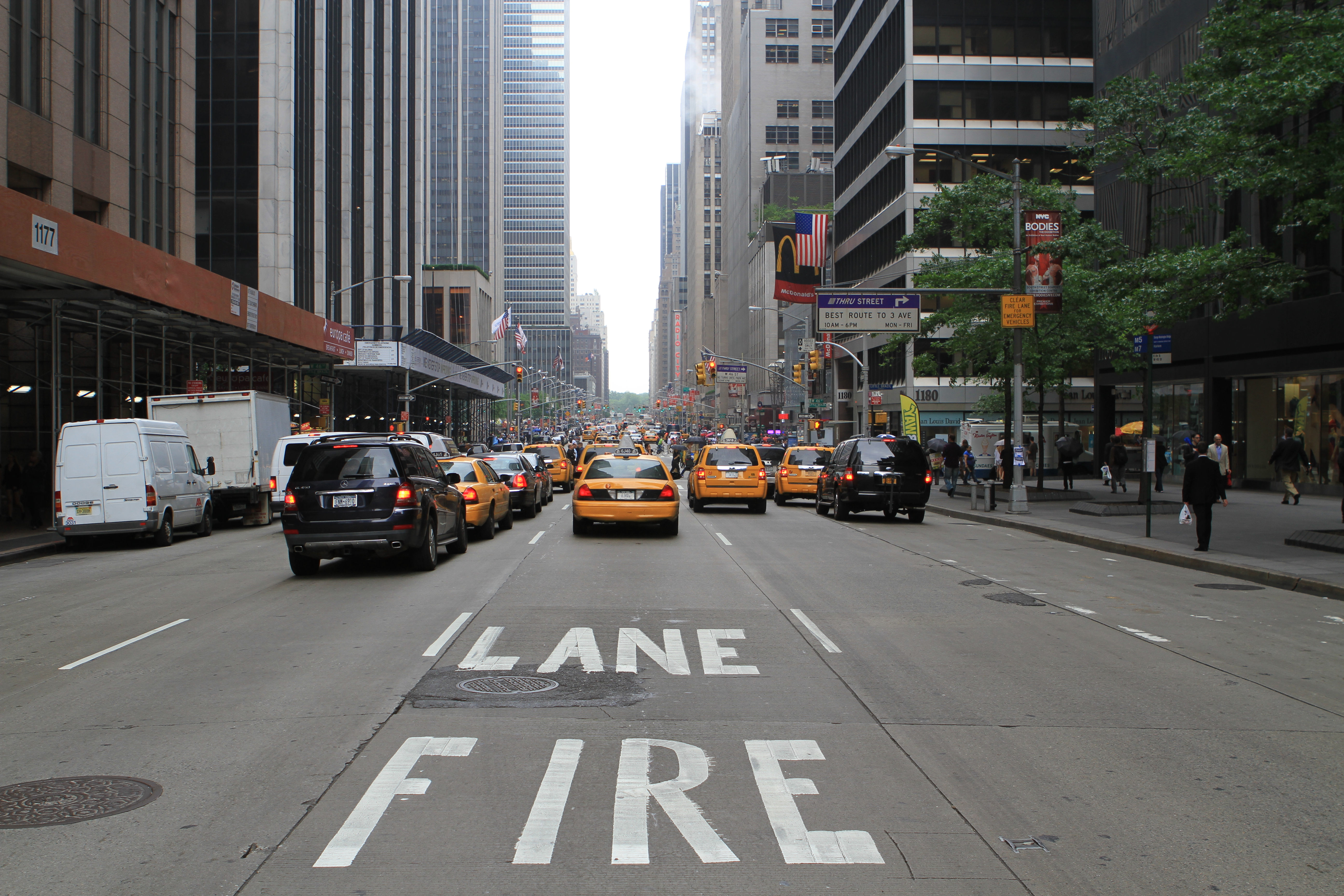 Fire Lane in New York City - Manhattan